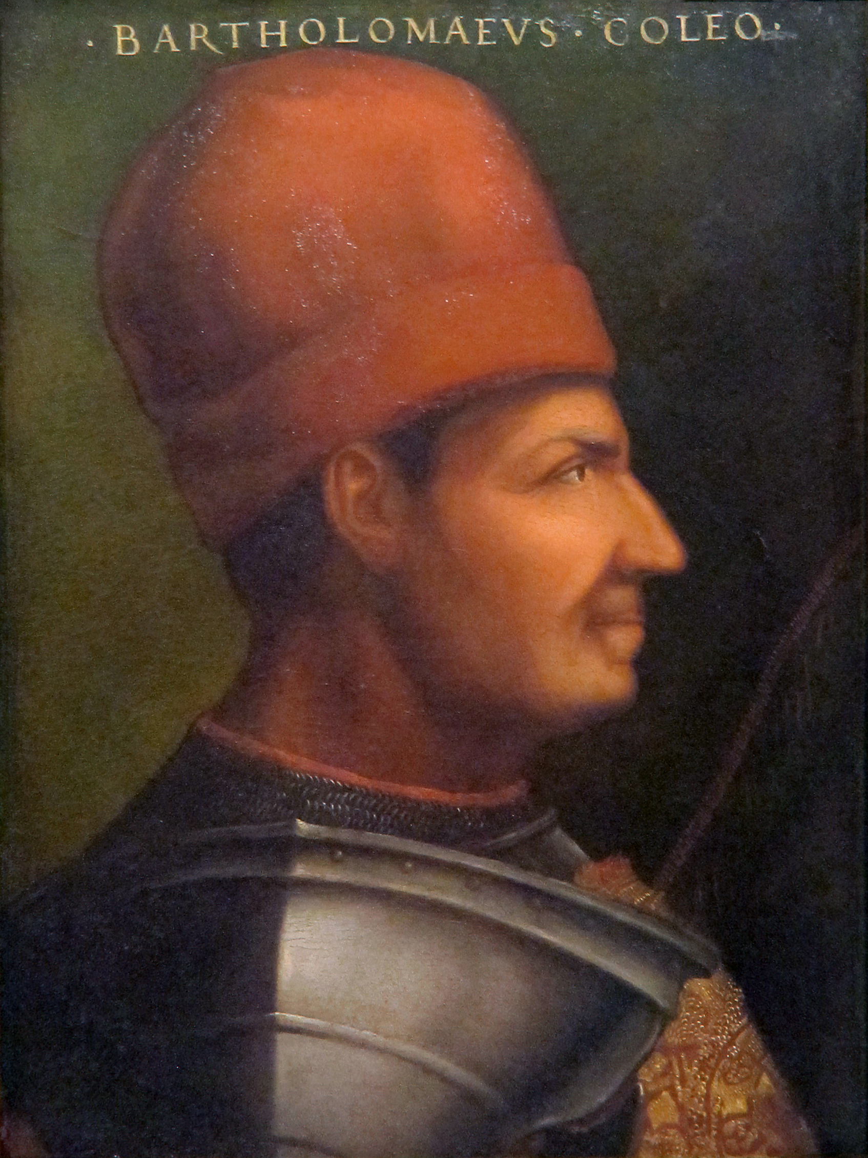 Cristofano dell'Altissimo, Bartolomeo Colleoni, ante 1568, cropped